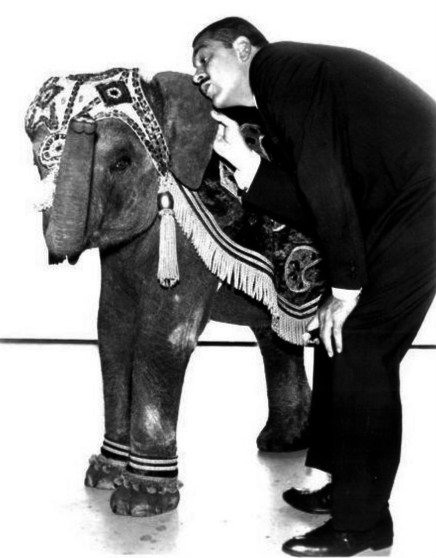 Publicity photo of Ernie Kovacs in the role of detective Barney Colby, who solves crimes and cases through his extraordinary sense of smell. For this General Electric Theater presentation, "I Was a Bloodhound", Colby is hired to find a baby elephant being held for ransom.